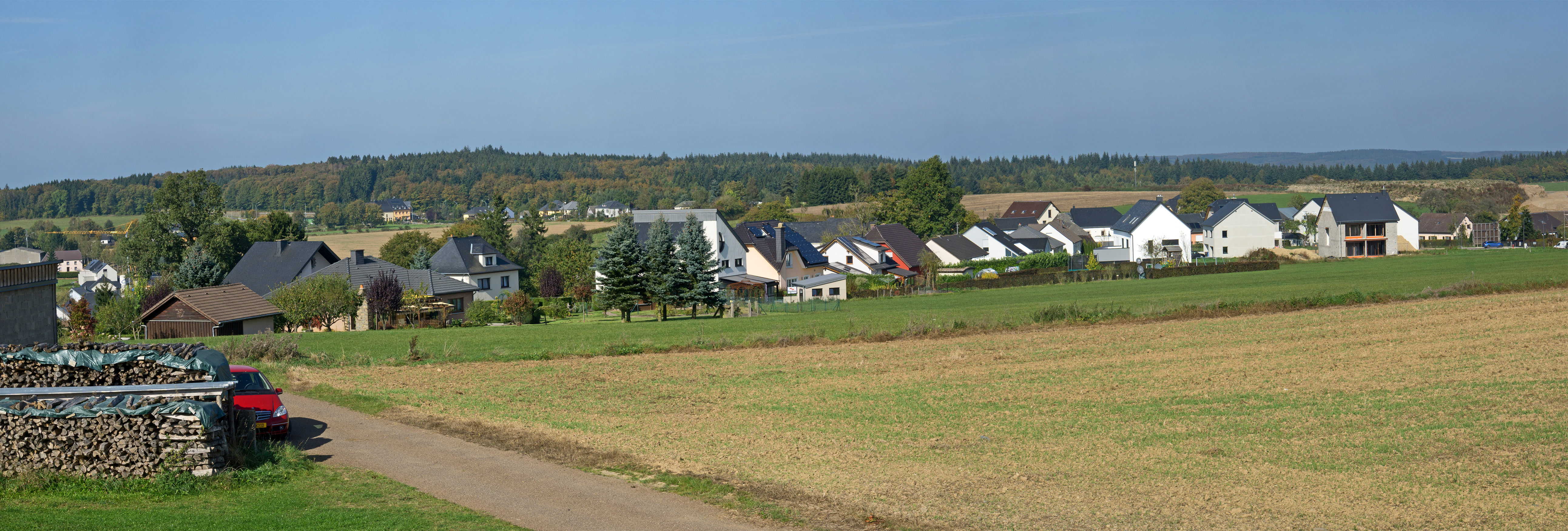 Nothum as seen from the water tower